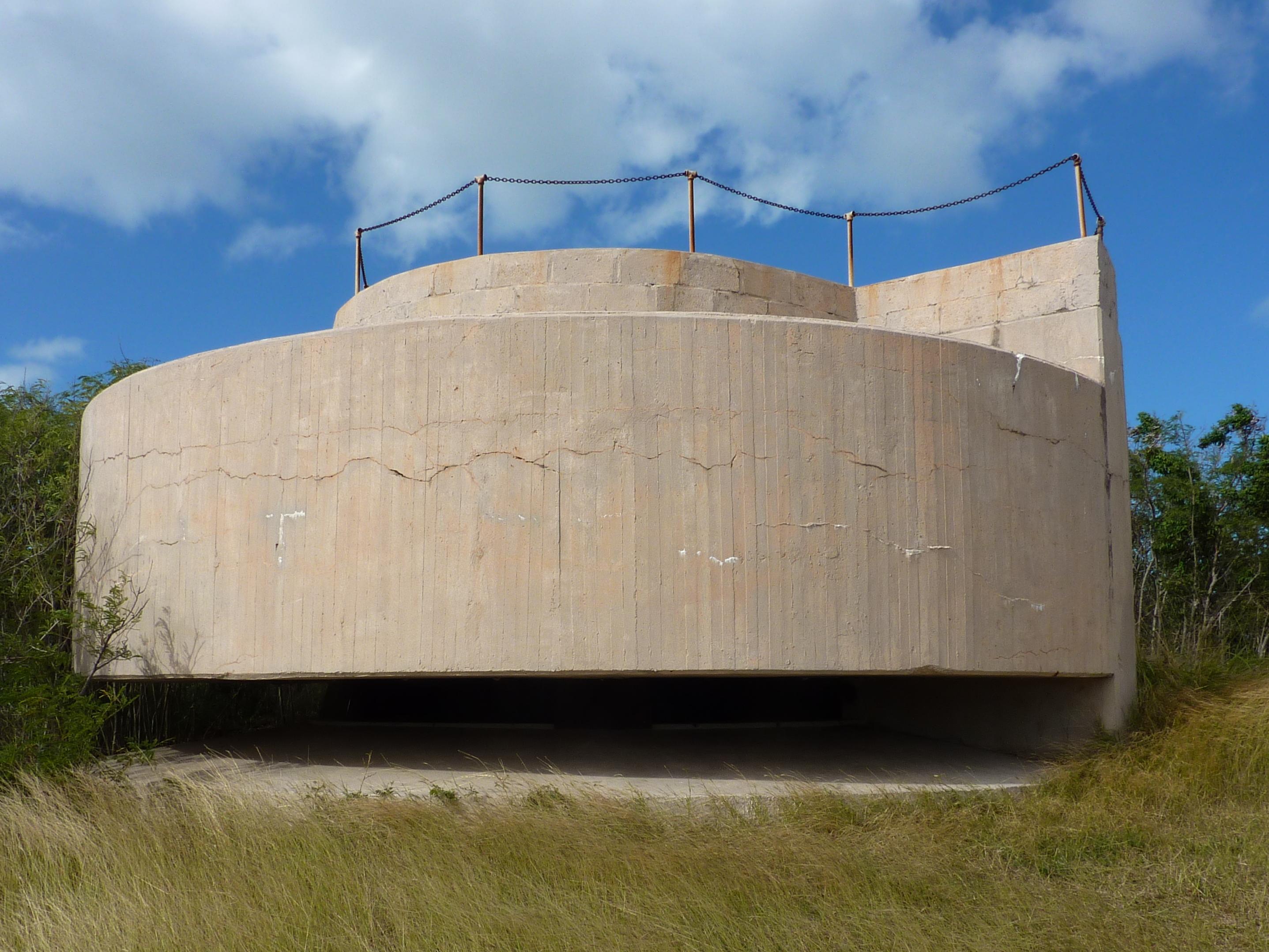 Fort Segarra, Water Island, USVI, Jan 2013.